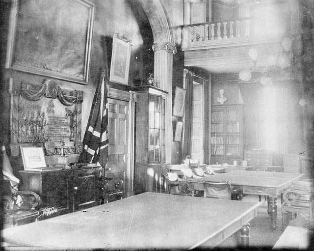 Room in which the Charlottetown Conference was held, 1864